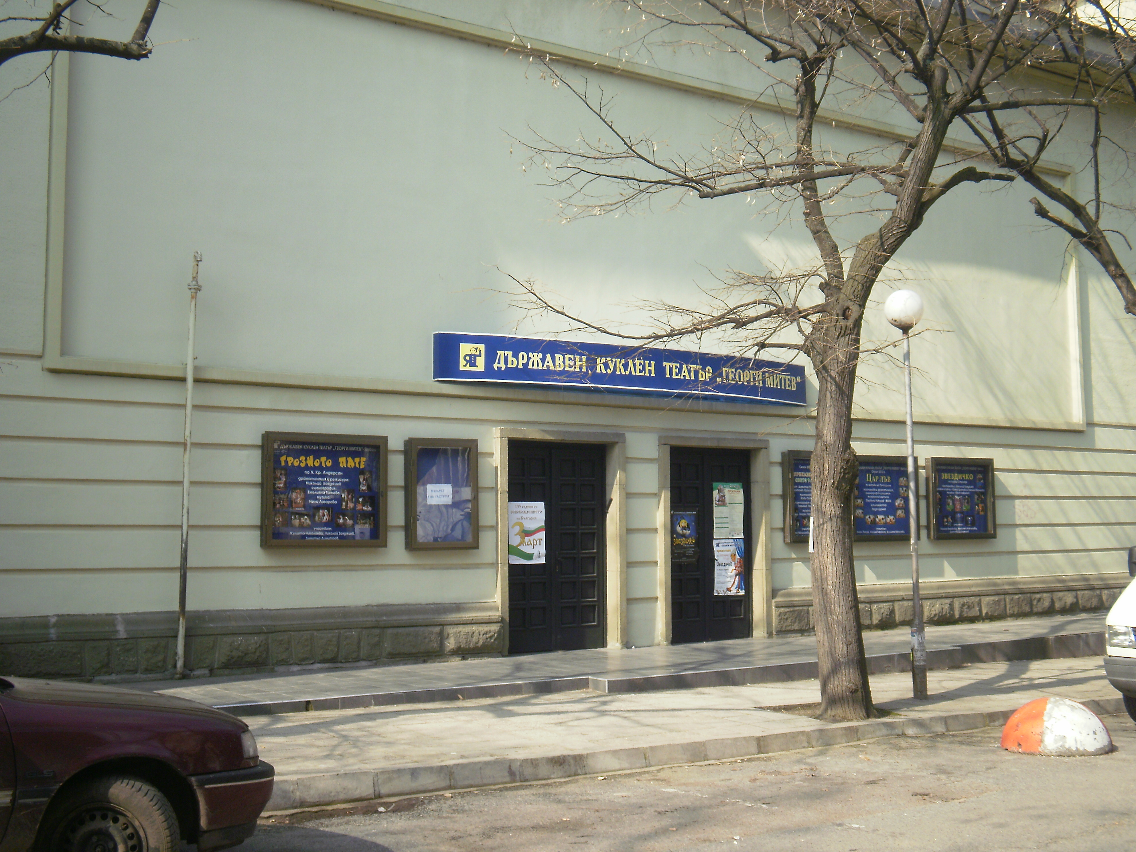 Georgi Mitev Theatre, Yambol, Bulgaria